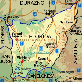 Map of Florida Department, Uruguay.